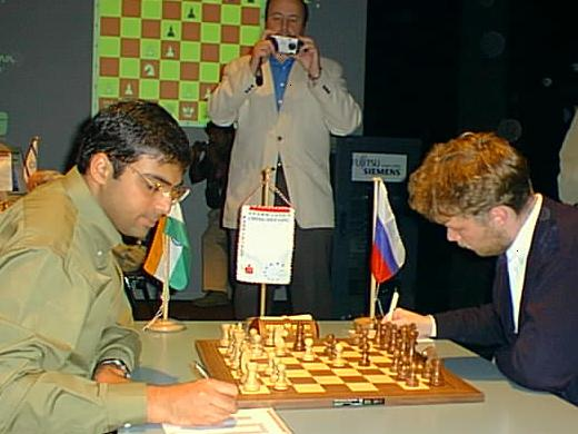 Viswanathan Anand - Alexander Khalifman, Dortmunder Schachtage 2000, Photographer Gerhard Hund.